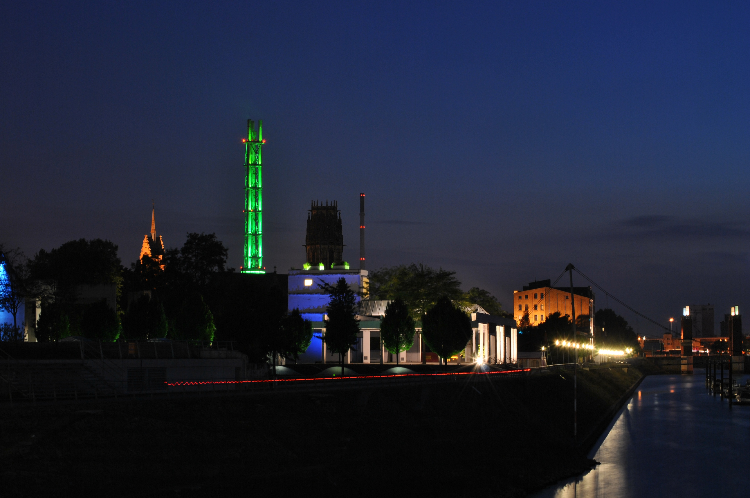 Night in Duisburg, seen from the Portsmouth Damm towards to southwest. There is the green lightning Stadtwerketurm in the middle, and at the left you can see a part of the marina of Duisburg. The red line on the levee next to the harbor is the taillight of a carting vehicular (probably a bike).